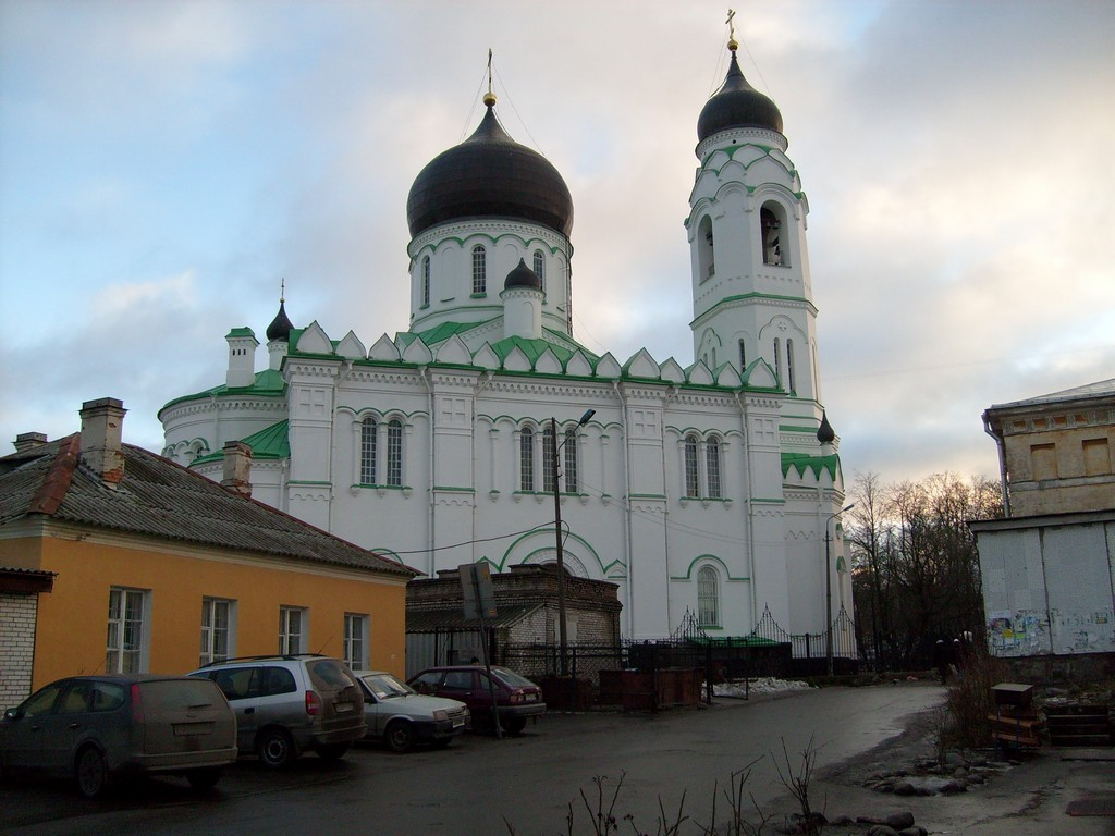 Lomonosov (Russia)